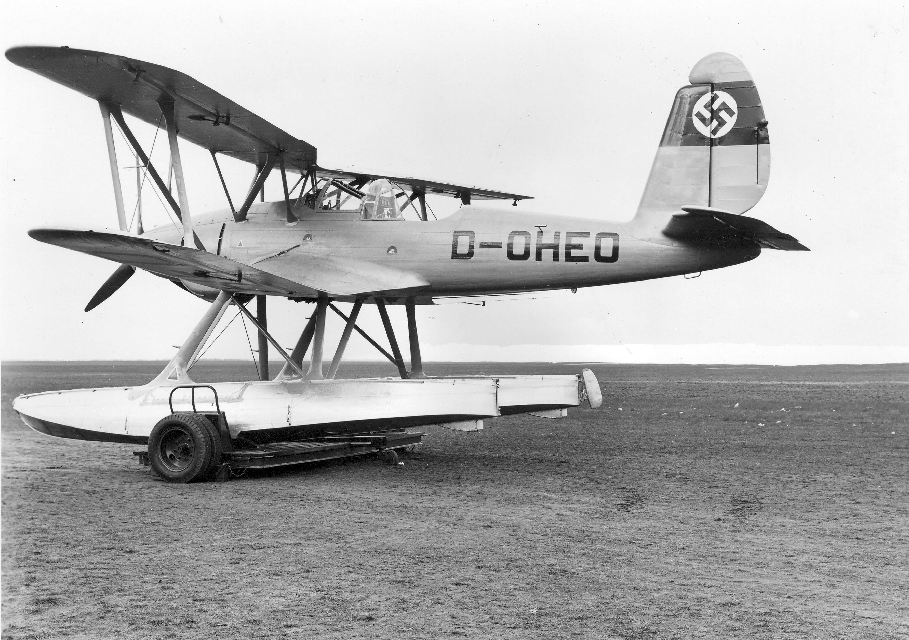 The first prototype of the Arado Ar 95, designation D-OHEO. The plane was propelled by a Jumo 210 engine from Junkers.